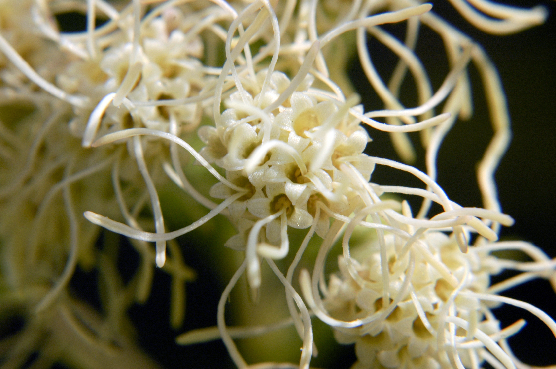 Brickellia eupatorioides var. corymbulosa (syn. Kuhnia eupatorioides corymbulosa) at James Woodworth Prairie Preserve, Glenview, IL, USA